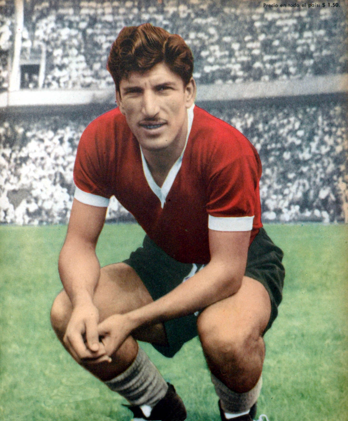 Ricardo Bonelli, forward of C.A. Independiente.